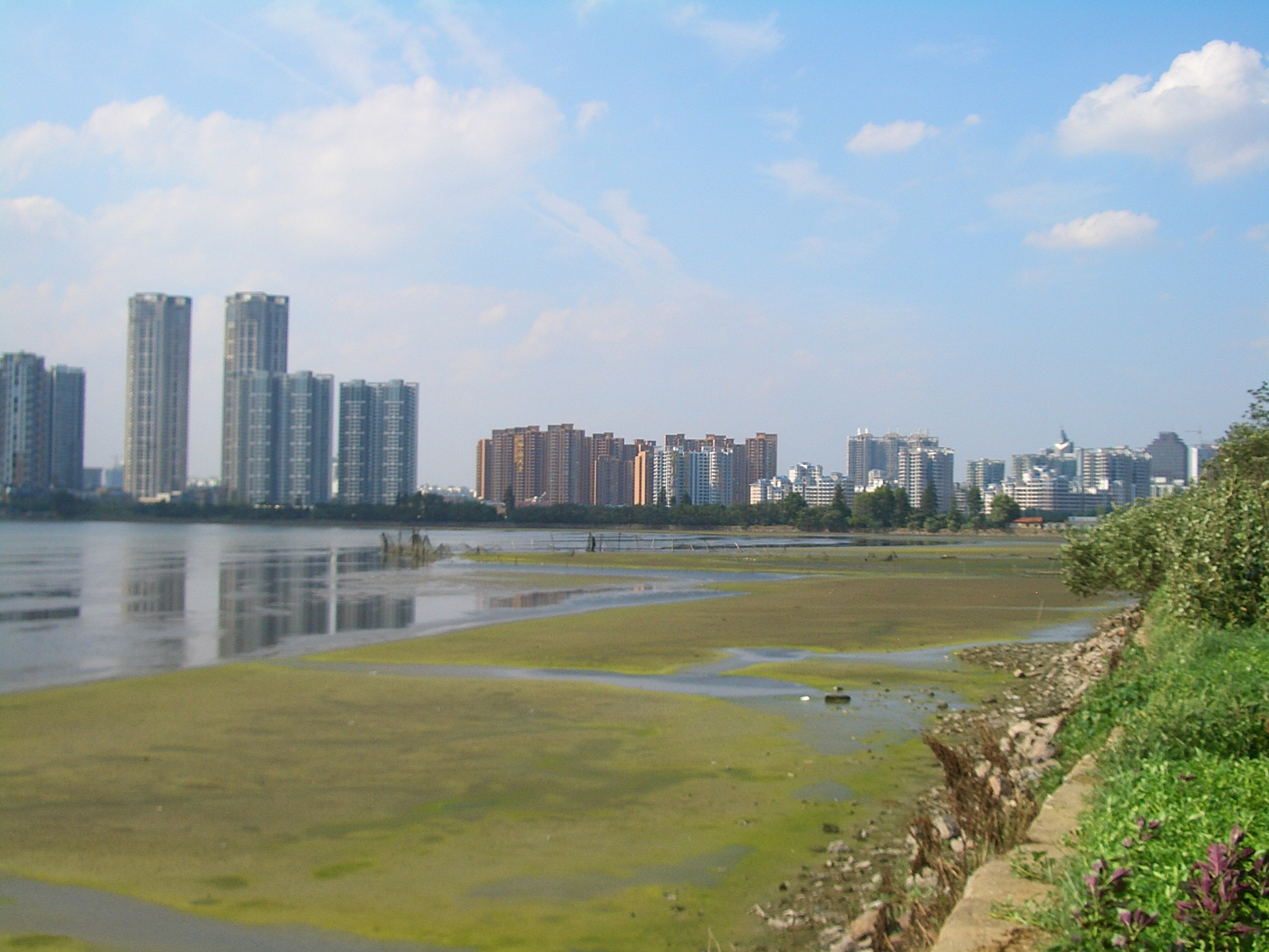 A view of the Shahu ("Sand Lake"), located just northeast of downtown Wuchang. Looking from the south shore in the roughly northern direction. High-rises on the other side are probably in Youyi Dadao (Friendship Ave.) and Heping Dadao (Peace Ave.), which run between the lake and the Yangtze River